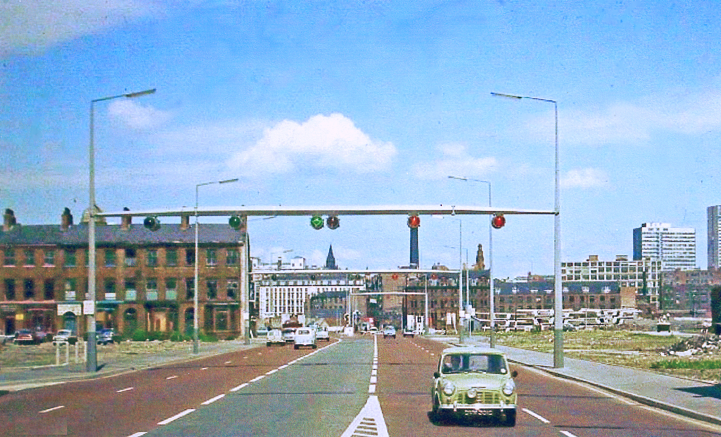 Entering Manchester on Upper Brook Street, 1966. View NW, towards the City centre. According to Keith Potter and Gerald England I was heading towards the then-pioneering 'tidal flow' system had been recently introduced at the junction with Grosvenor Street about 500 yards ahead. I was at about Brunswick Street and was passing on the left the site of the Manchester University buildings since erected there.